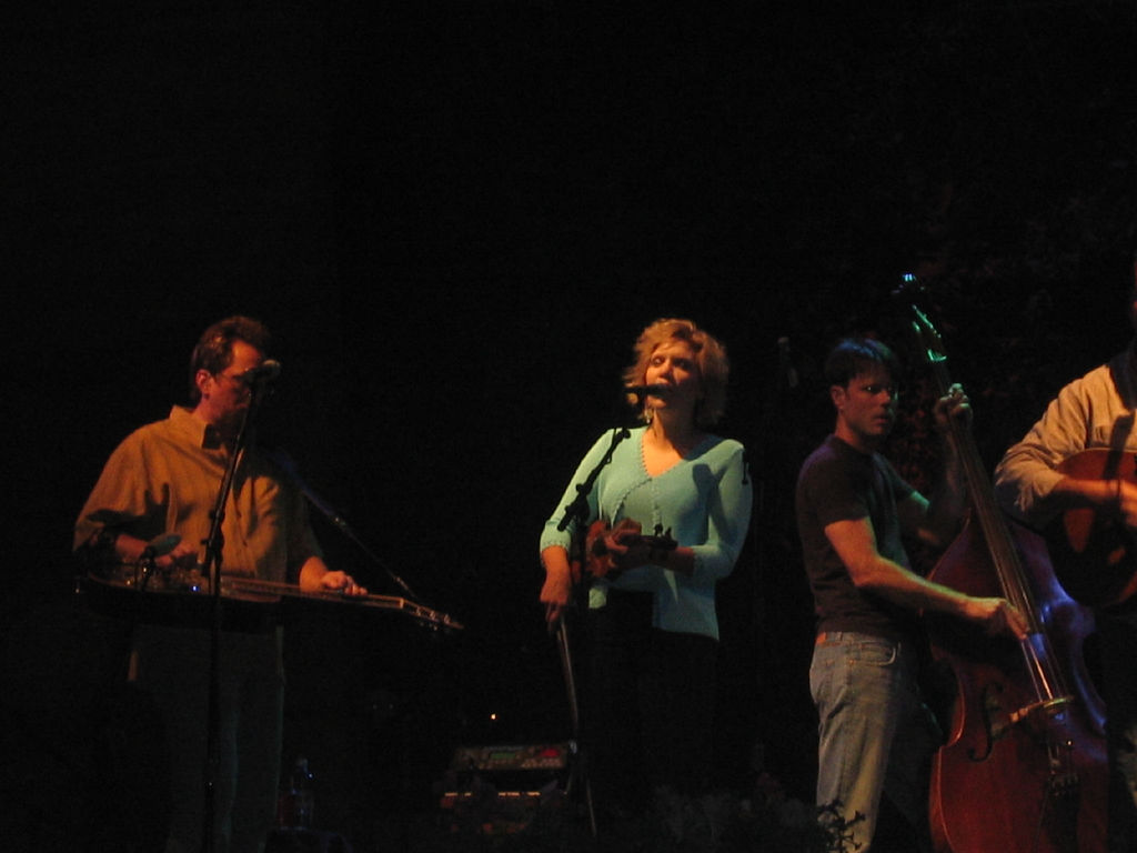 Alison Krauss performing at the bluegrass music festival Rockygrass.